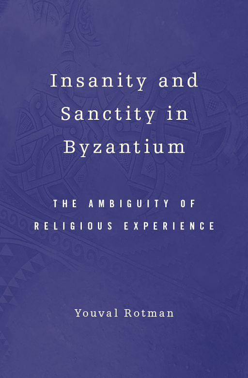 Insanity and Sanctity in Byzantium: The Ambiguity of Religious Experience, forthcoming Harvard University Press, 2016